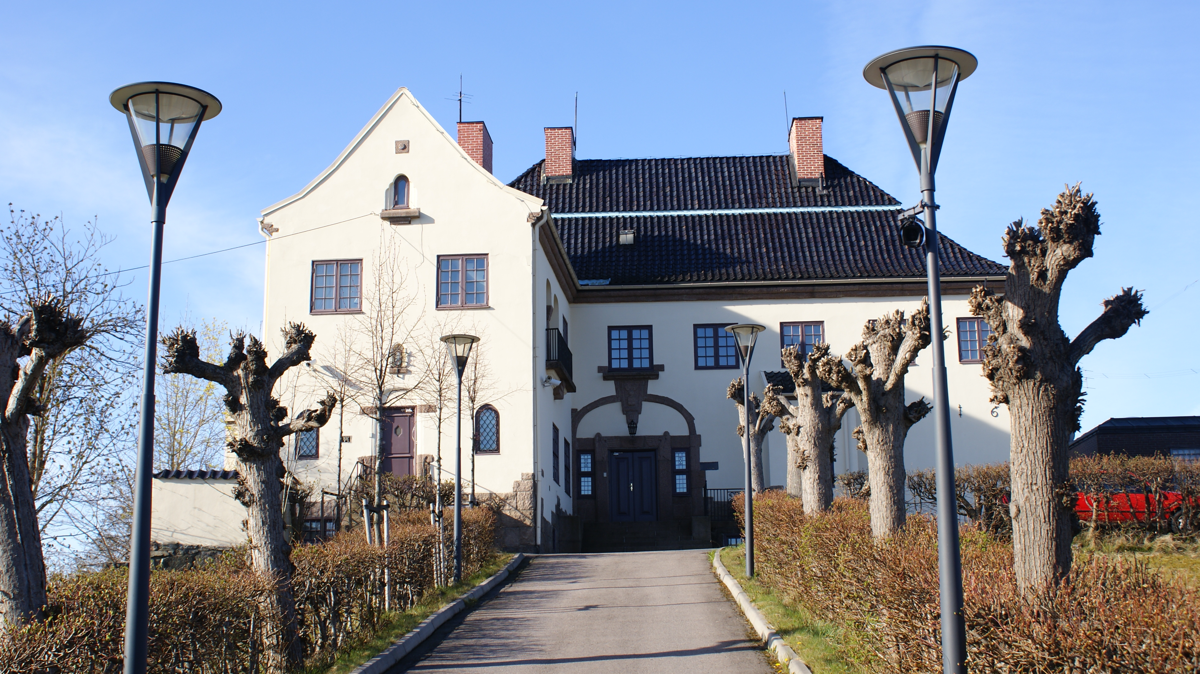 Chinese Embassy, Vinderen, Vestre Aker, Oslo, Norway.